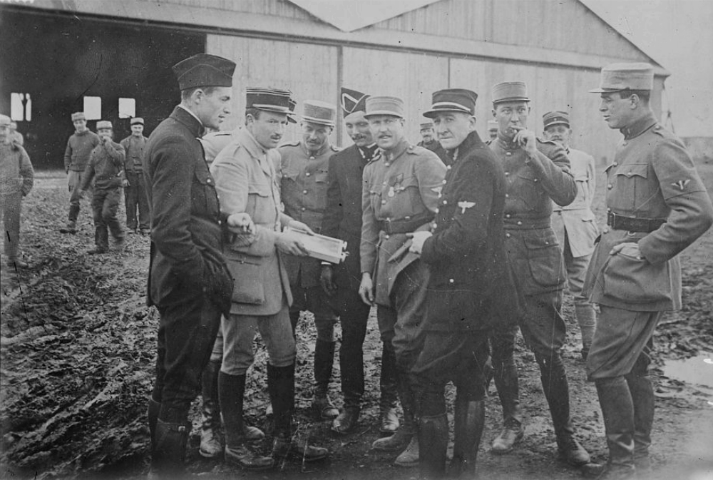 K. Rockwell, Capt. Thenault, Norman Prince, Lt. DeLagge, Sgt. Cowdin, Sgt. Bert Hall, J.R. McConnell, and Victor Chapman. Lafayette Escadrille, World War I.